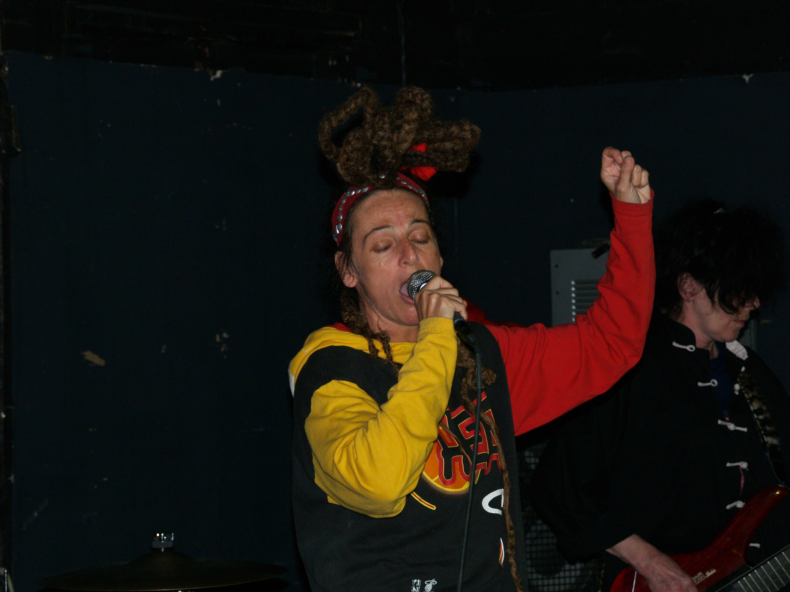 The Slits